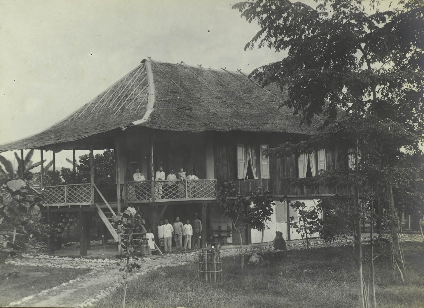 The house of missionary Philip Heinrich Christoph Hofman in Kasiguncu, Central Sulawesi, Indonesia.